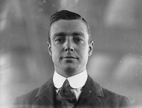 W. C. Crawley, tennis player from the United Kingdom